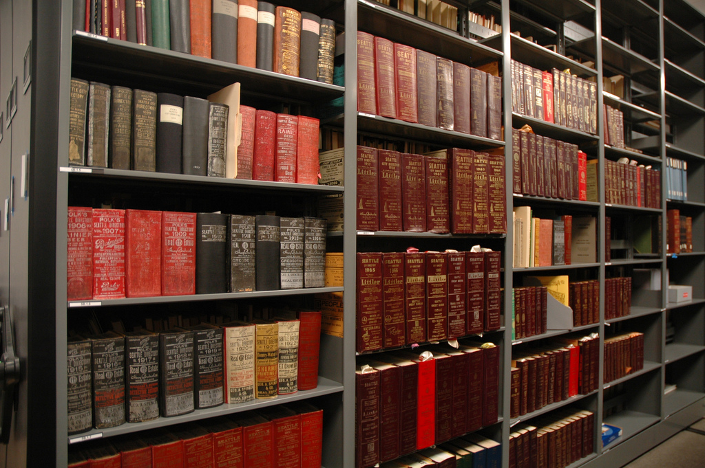 One hundred years worth of city directories from Seattle and other King County cities stored at MOHAI's Sophie Frye Bass Library.